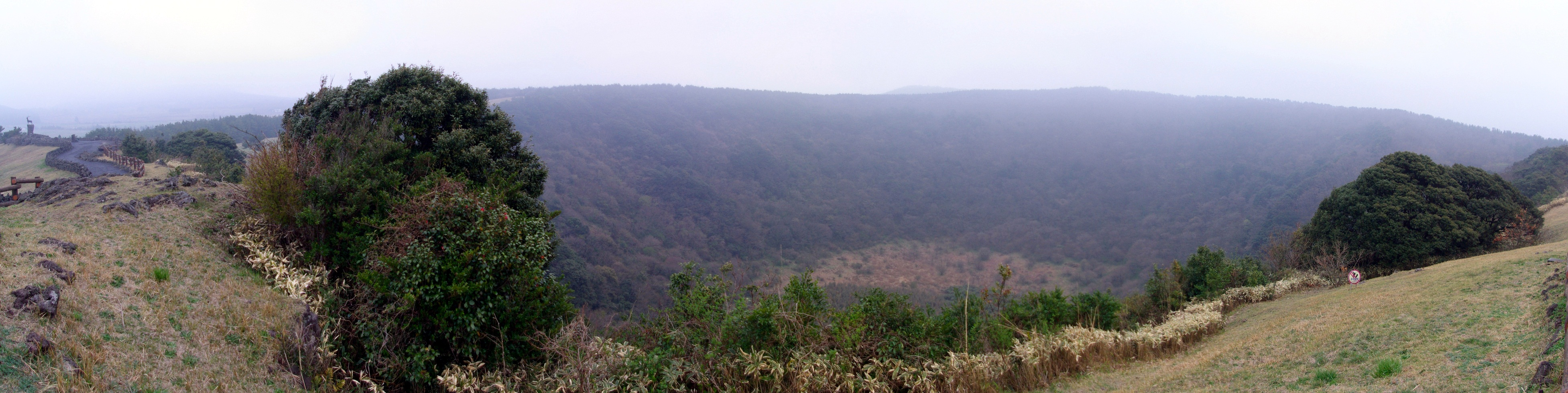 Panoramic view of the Sangumburi volcanic carter, Jeju.